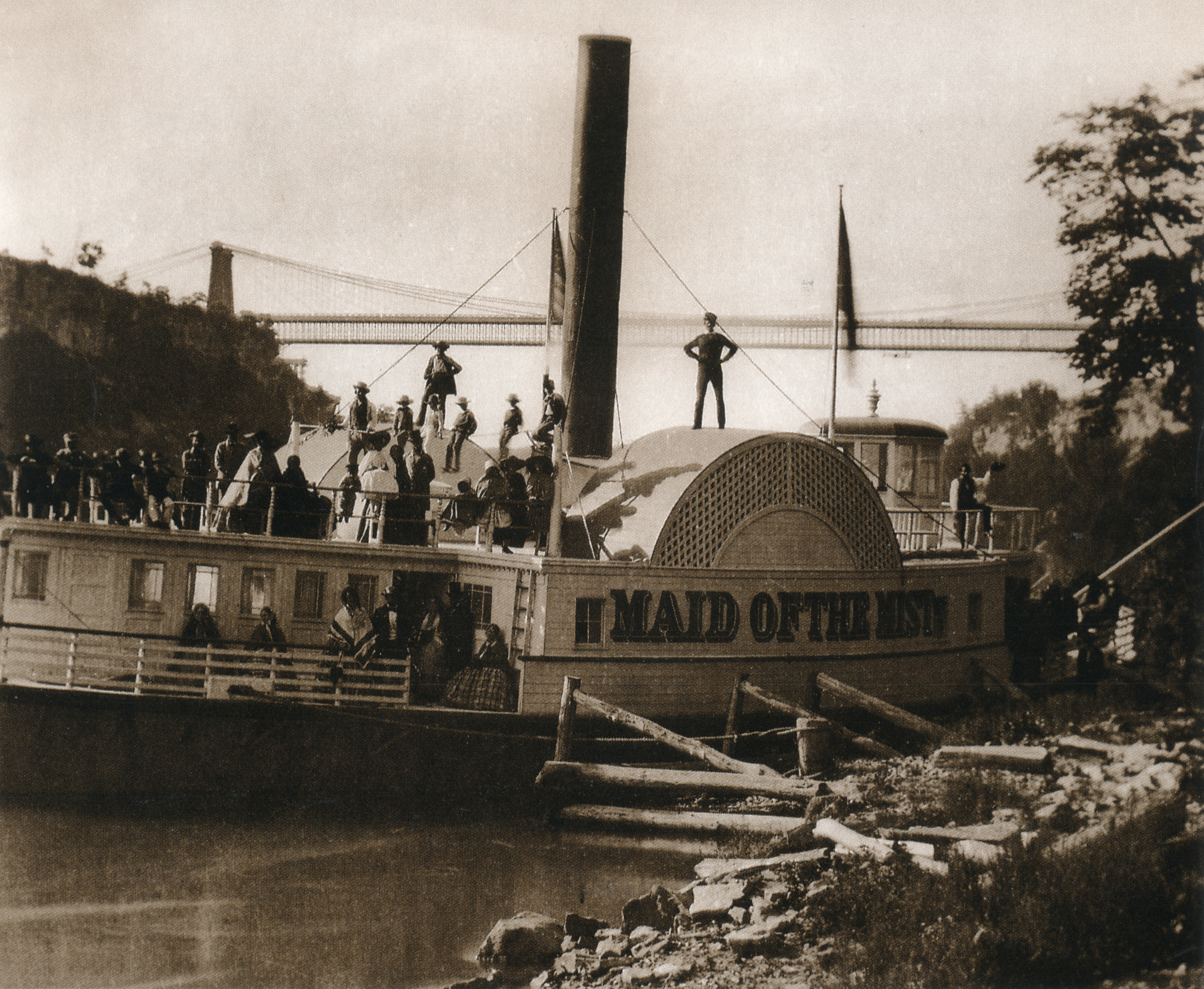 Maid of the Mist I (1854-1860). In the background the Niagara Falls Suspension Bridge is visible.